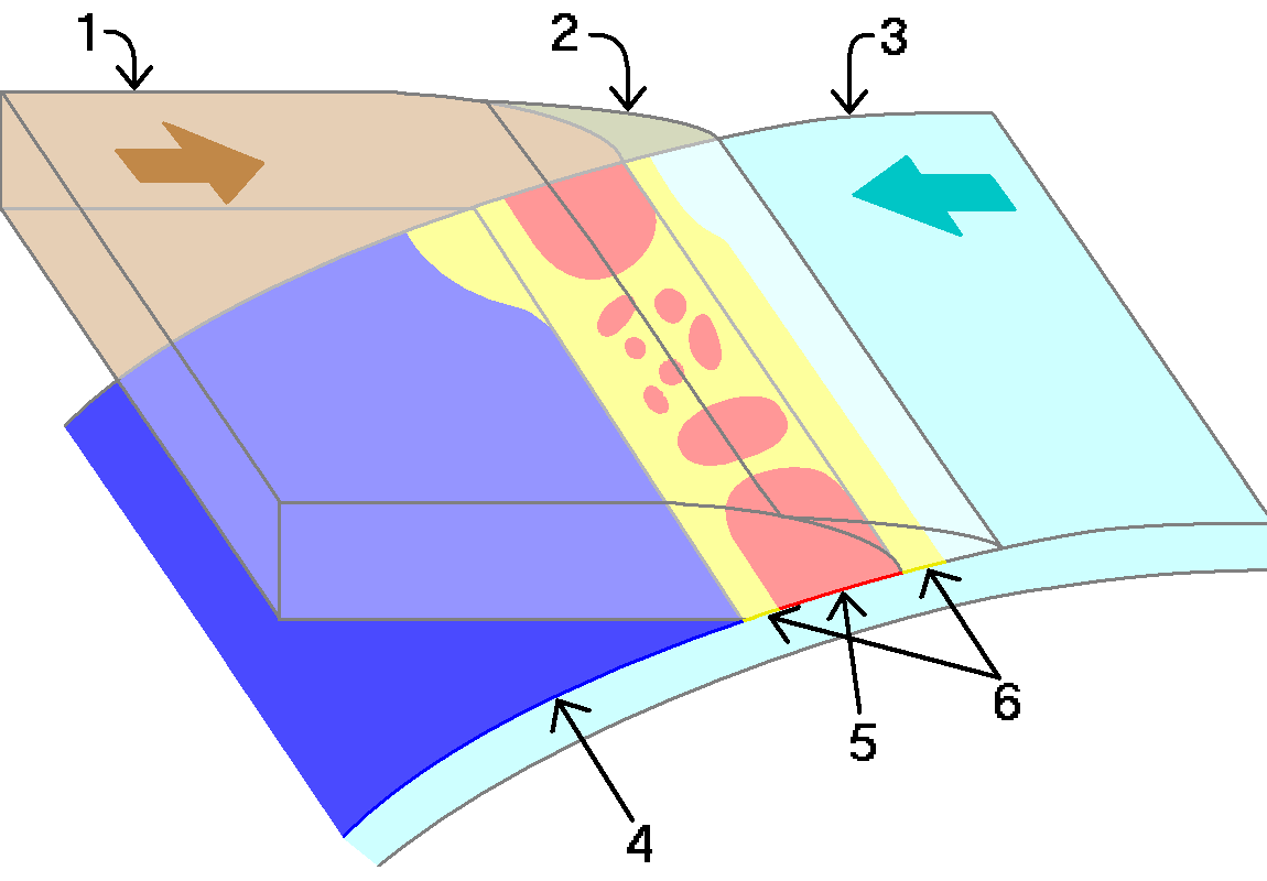 Figure of Subduction(A type of tectonic plate boundaries) zone and asperity